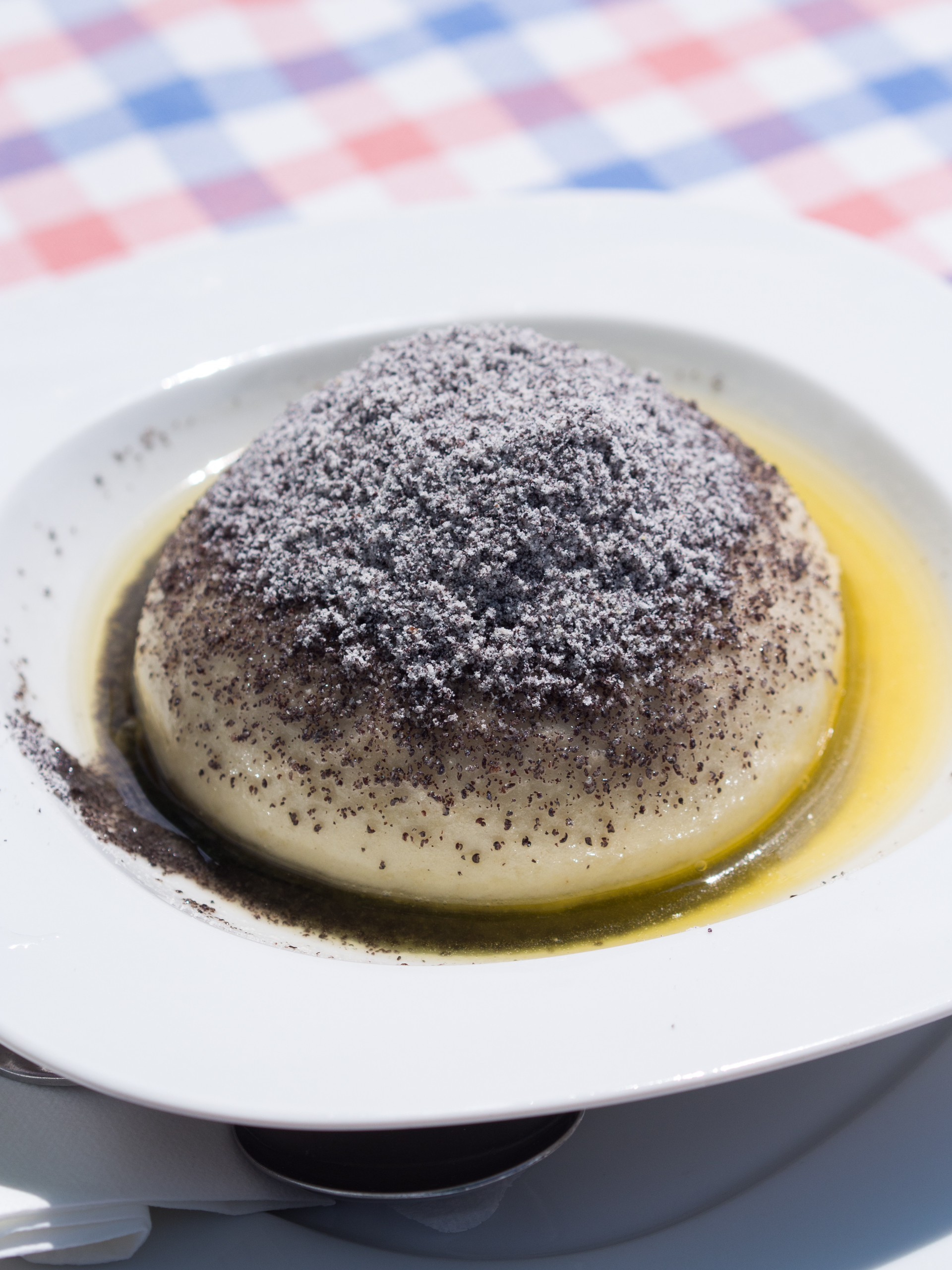 A Germknödel in butter sauce served at the Gaislachalm, Sölden, Tyrol.